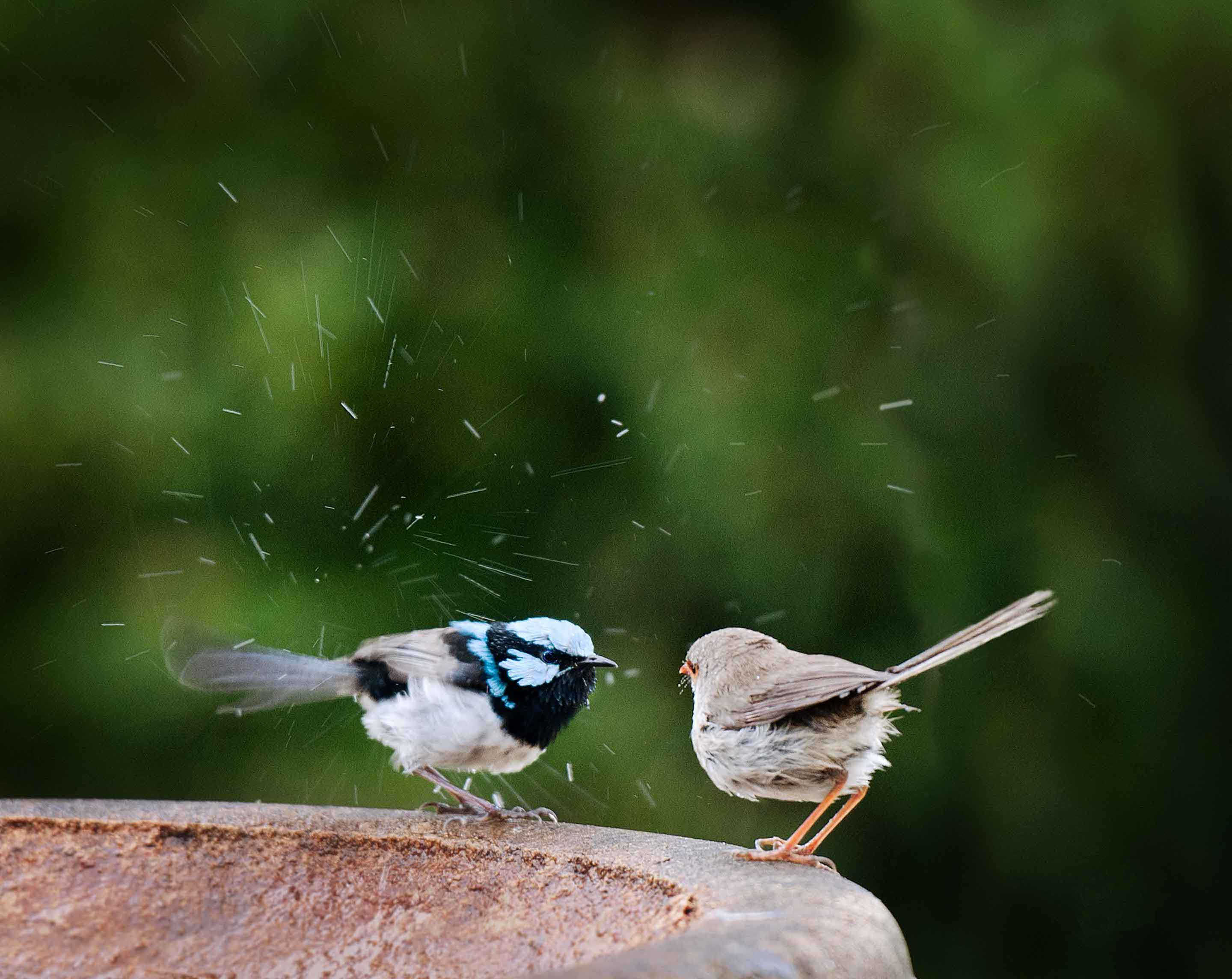 A pair of Superb Fairywrens in Wamboin, New South Wales, Australia.